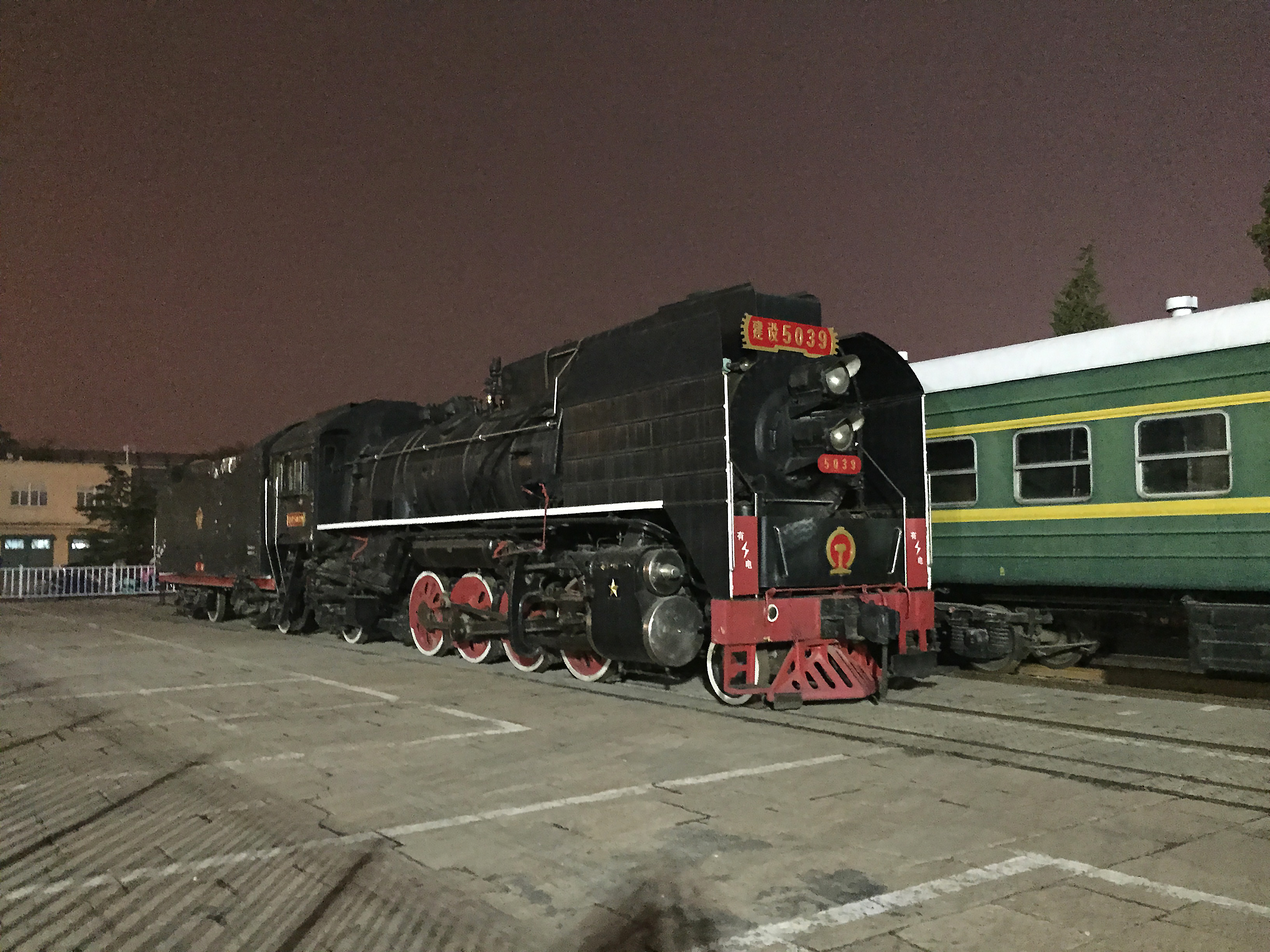 One steam locomotive and two YZ22 coaches on display in front of Beizhan Theater?! Why?